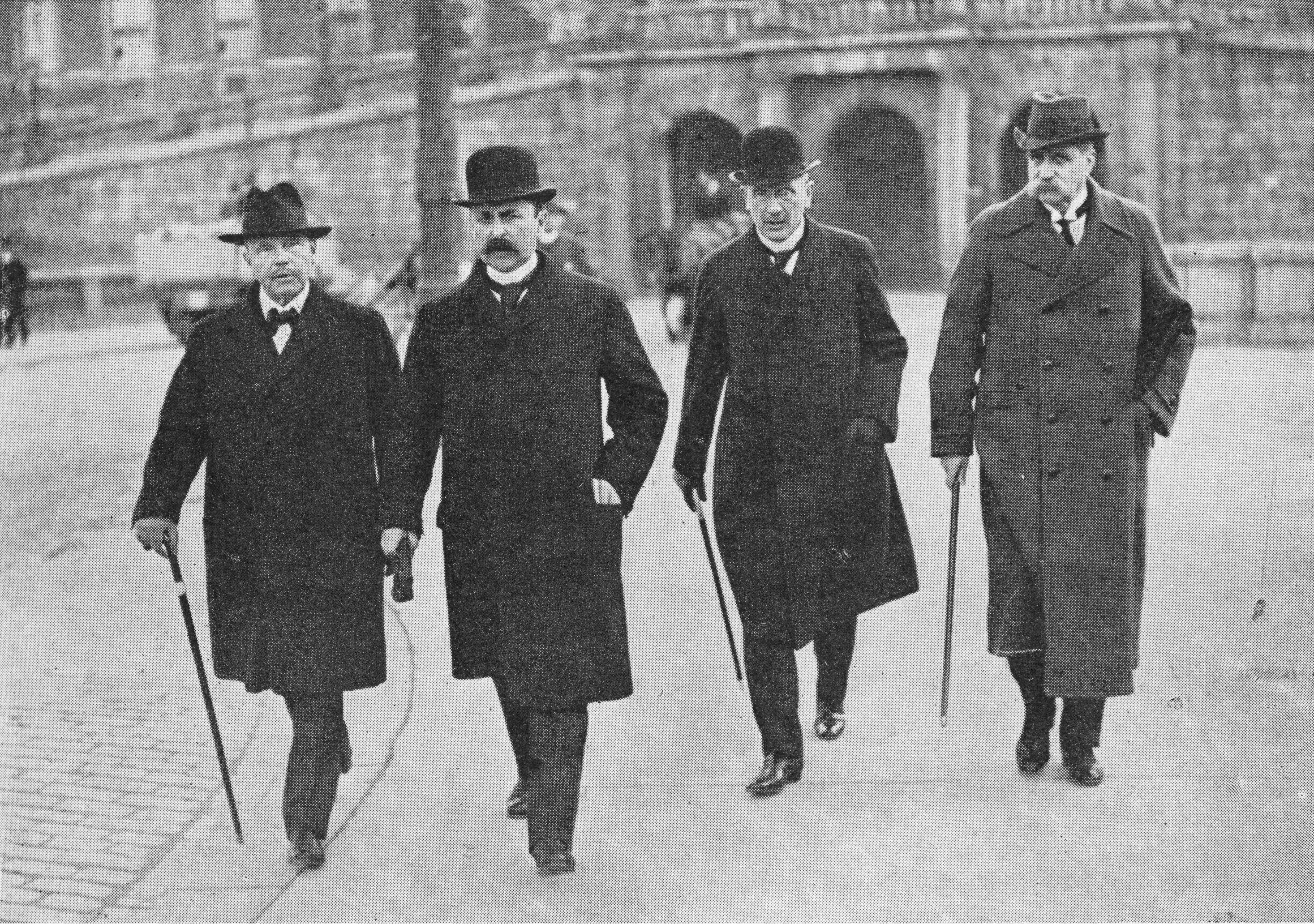 Four Swedish party leaders, Arvid Lindman (the Rightist Party), Nils Edén (Liberal Coalition Party), Ernst Trygger (the Rightist Party) and Hjalmar Branting (Social Democrats) outside the Royal castle in 1917.